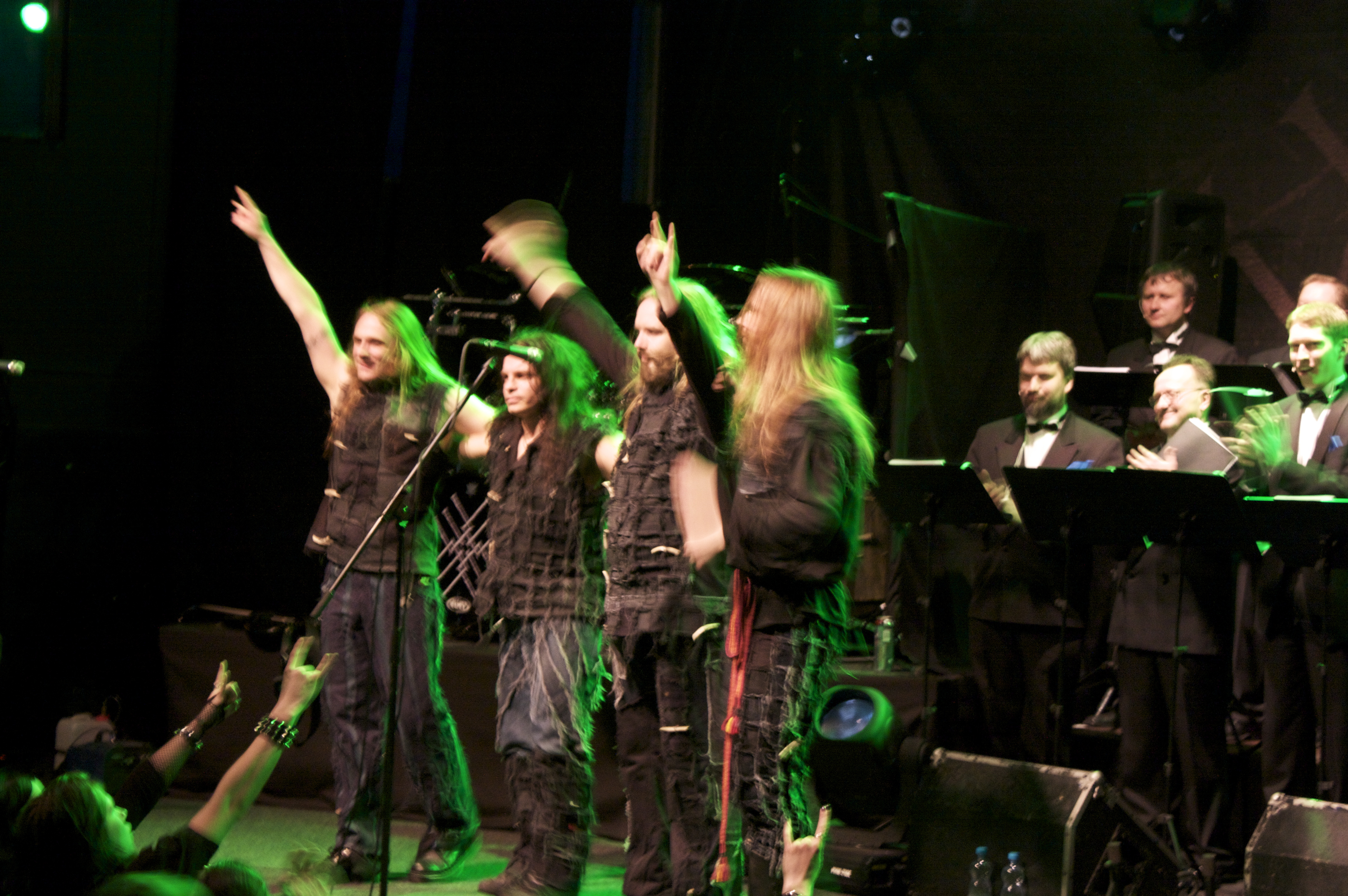 Metsatöll and the Estonian national male choir presenting their new album Äio in Rock Cafe, Tallinn, Estonia.